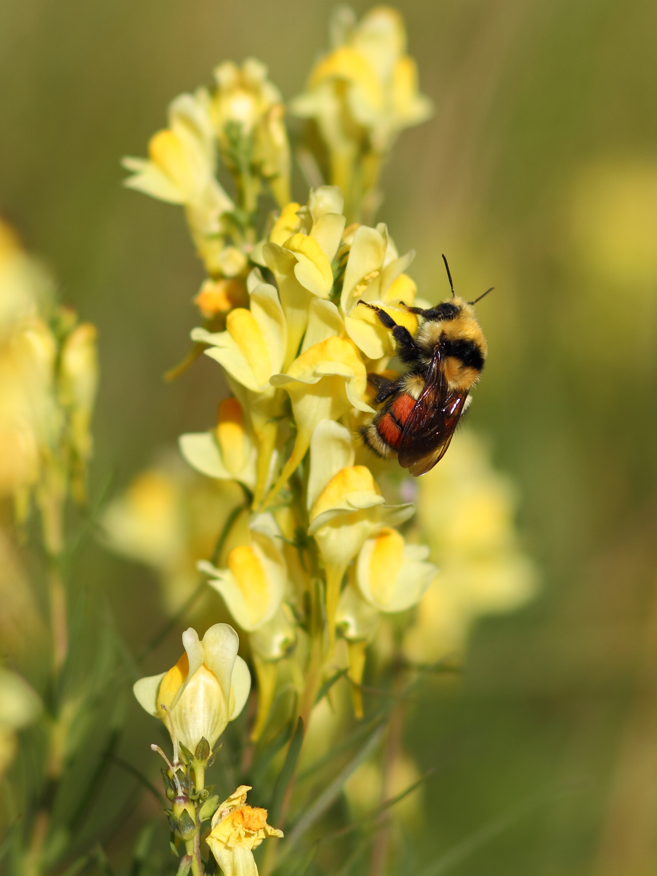 Bombus ternarius, a.k.a. Orange-belted Bumblebee, by the Bow River in Calgary, Alberta, Canada.